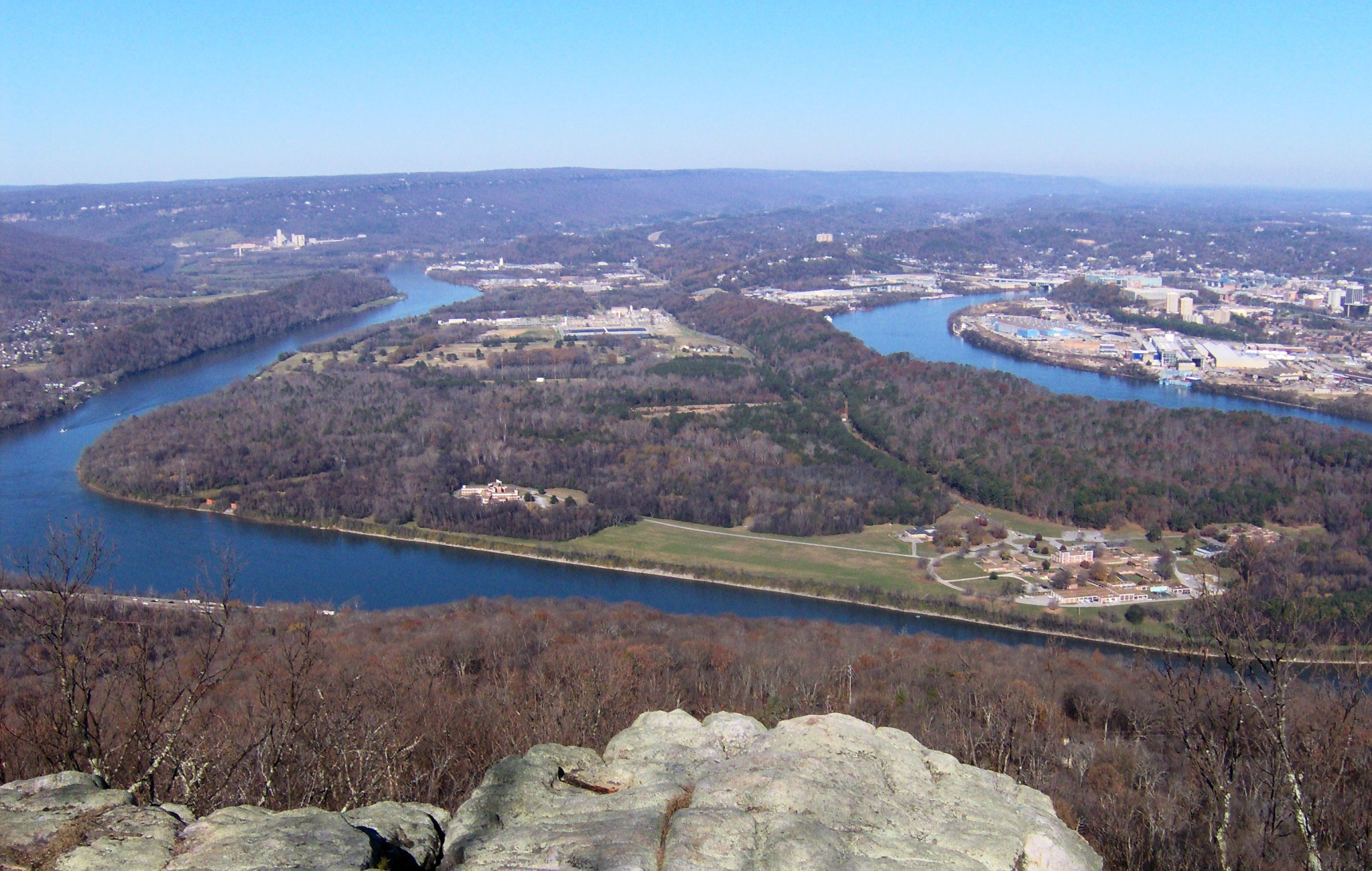 Moccasin Bend, an archaeologically-significant peninsula created by a bend in the Tennessee River, viewed from Lookout Mountain in Hamilton County, Tennessee, USA. Downtown Chattanooga is on the right. The Cumberland Plateau spans most of the horizon.